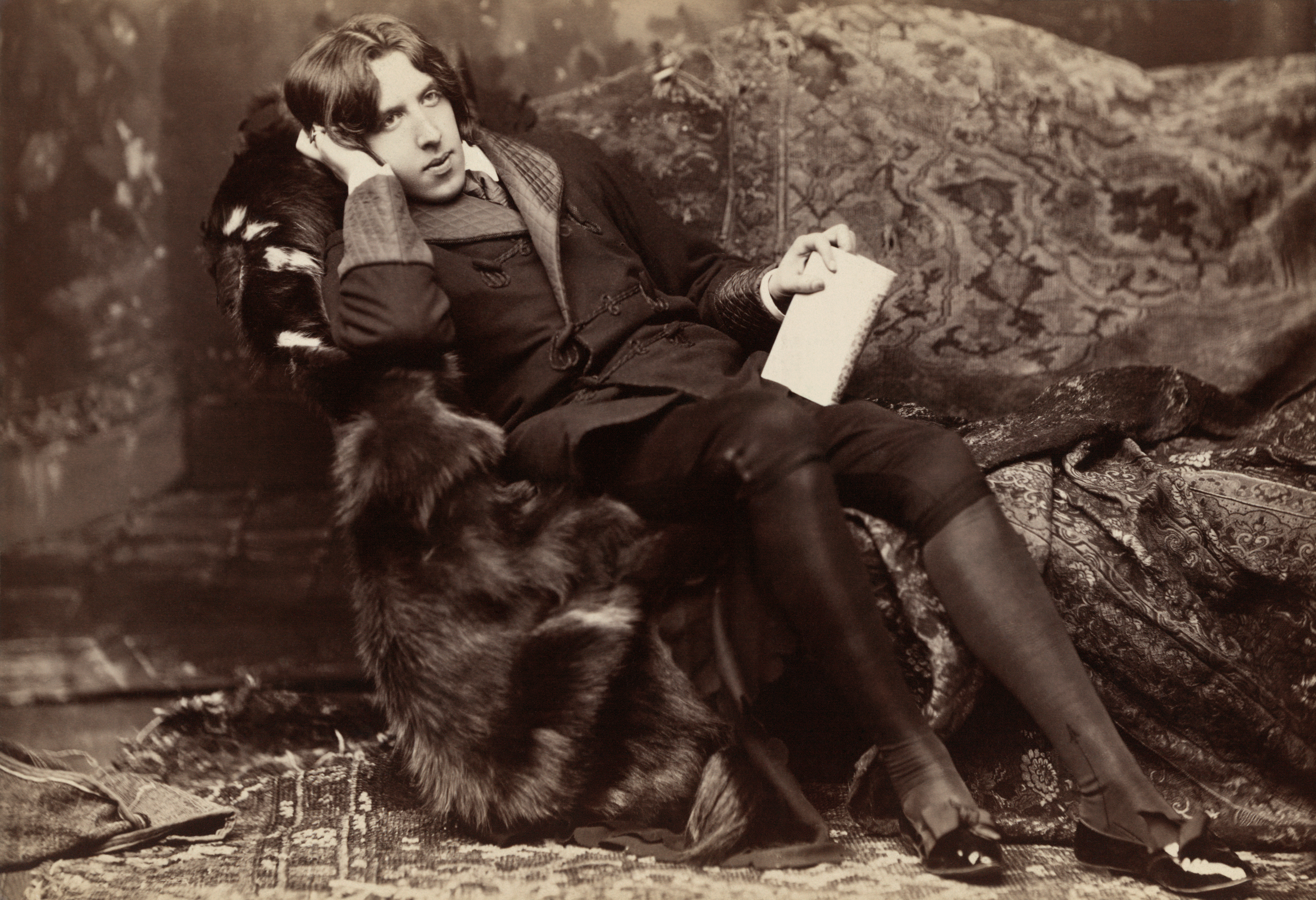 Oscar Wilde, photographic print on card mount: albumen.